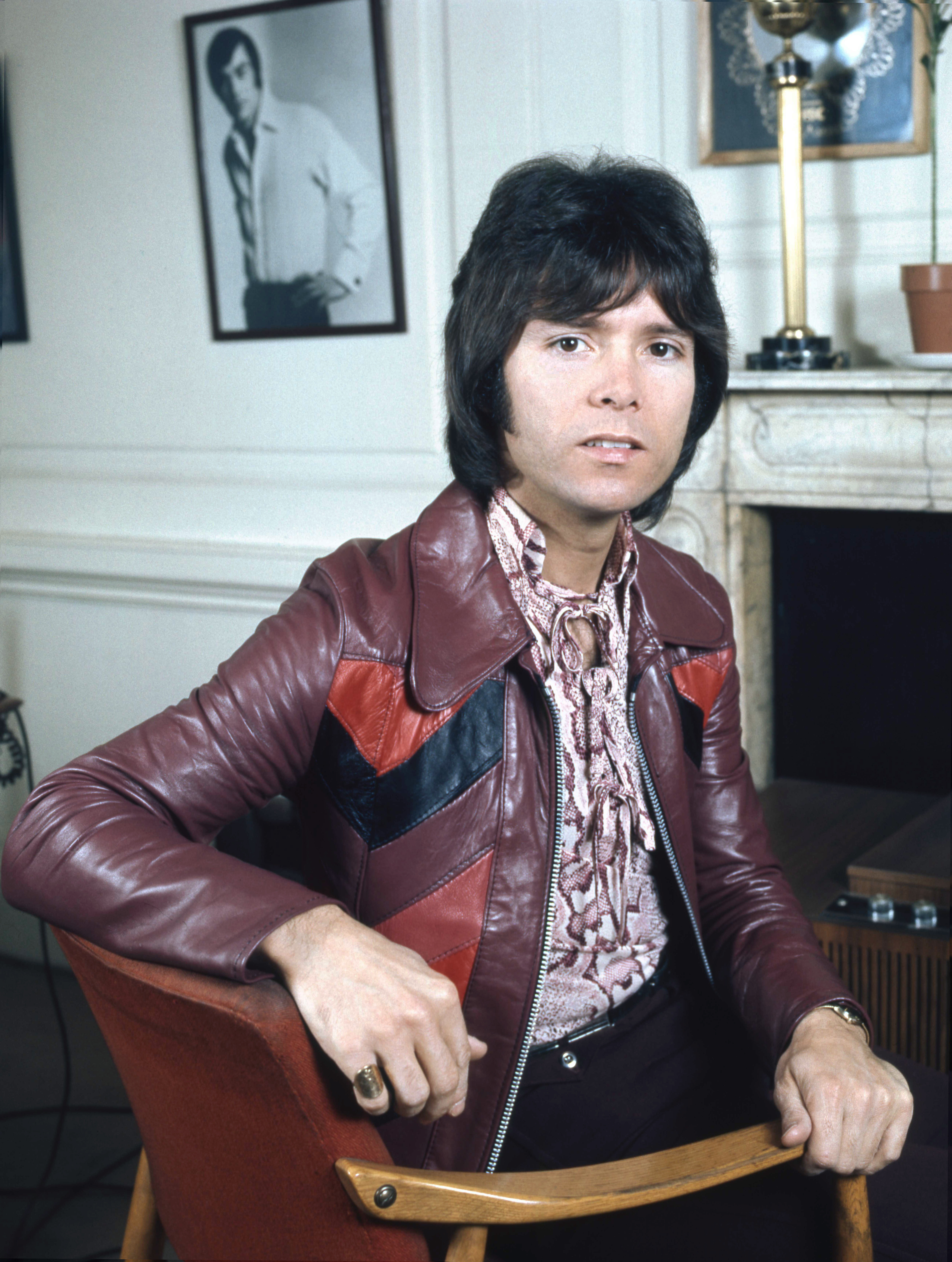 Sir Cliff Richard taken in his office London